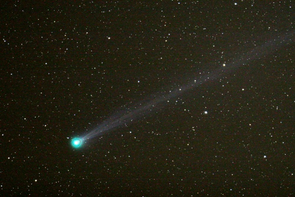 Comet C/2006A1 (Pojmanski) seen from Mt Laguna predawn 02 MAR 2006. The comet has passed Earth and is receding into the outer solar system, however it should be visible telescopically for several months. Canon 20D, 400mm f/2.8, 30sec@f/2.8 @ISO 800. Photo: Paul Martinez and Philip Brents, . Source: [1] which references Please refer to Source: [2] which specifically releases this file under the FAL.